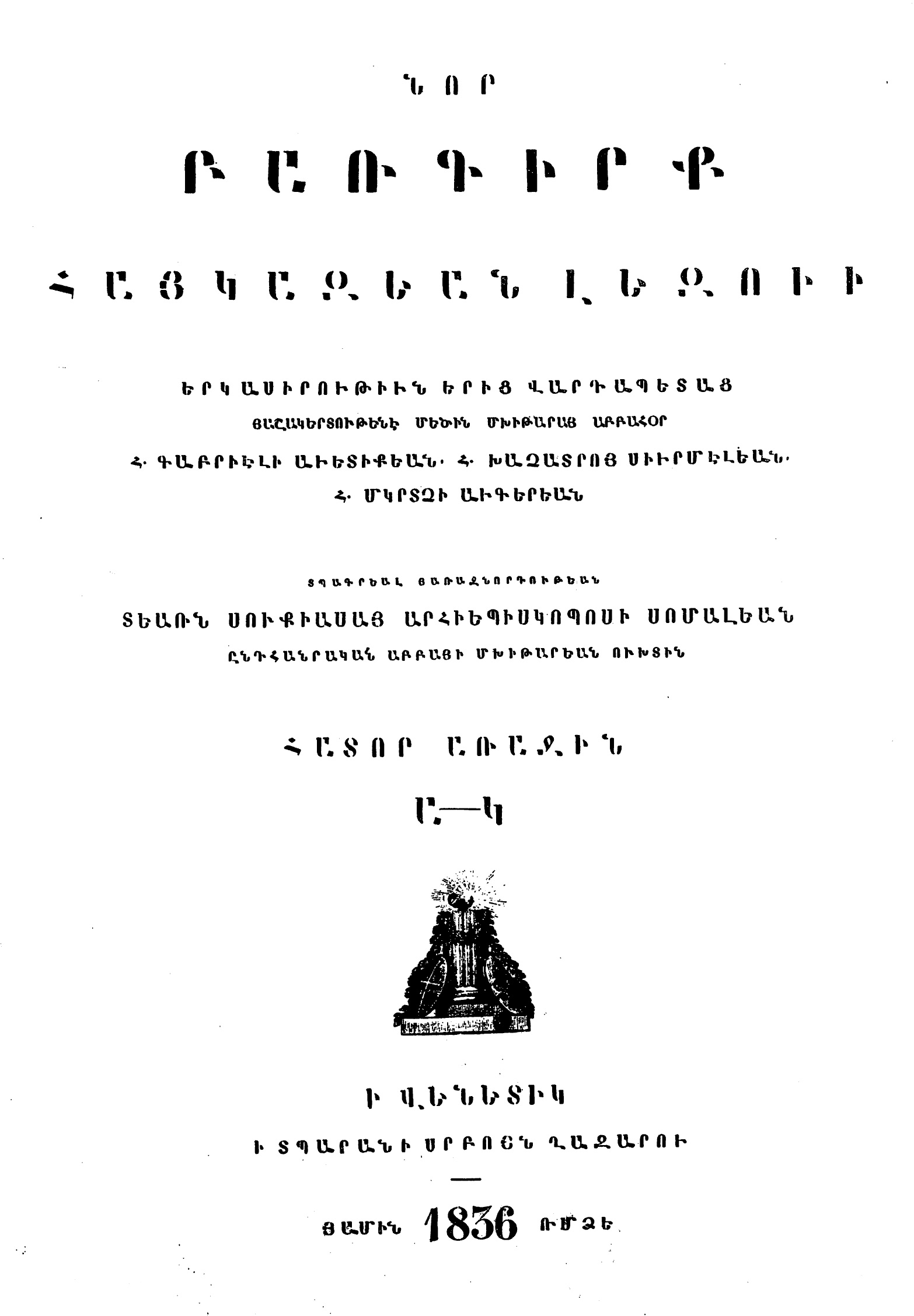 New Dictionary of the Armenian Language, vol. I